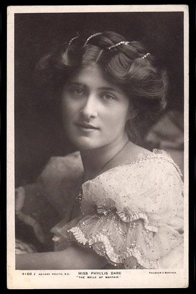 Postcard of Phyllis Dare in The Belle of Mayfair, 1906.